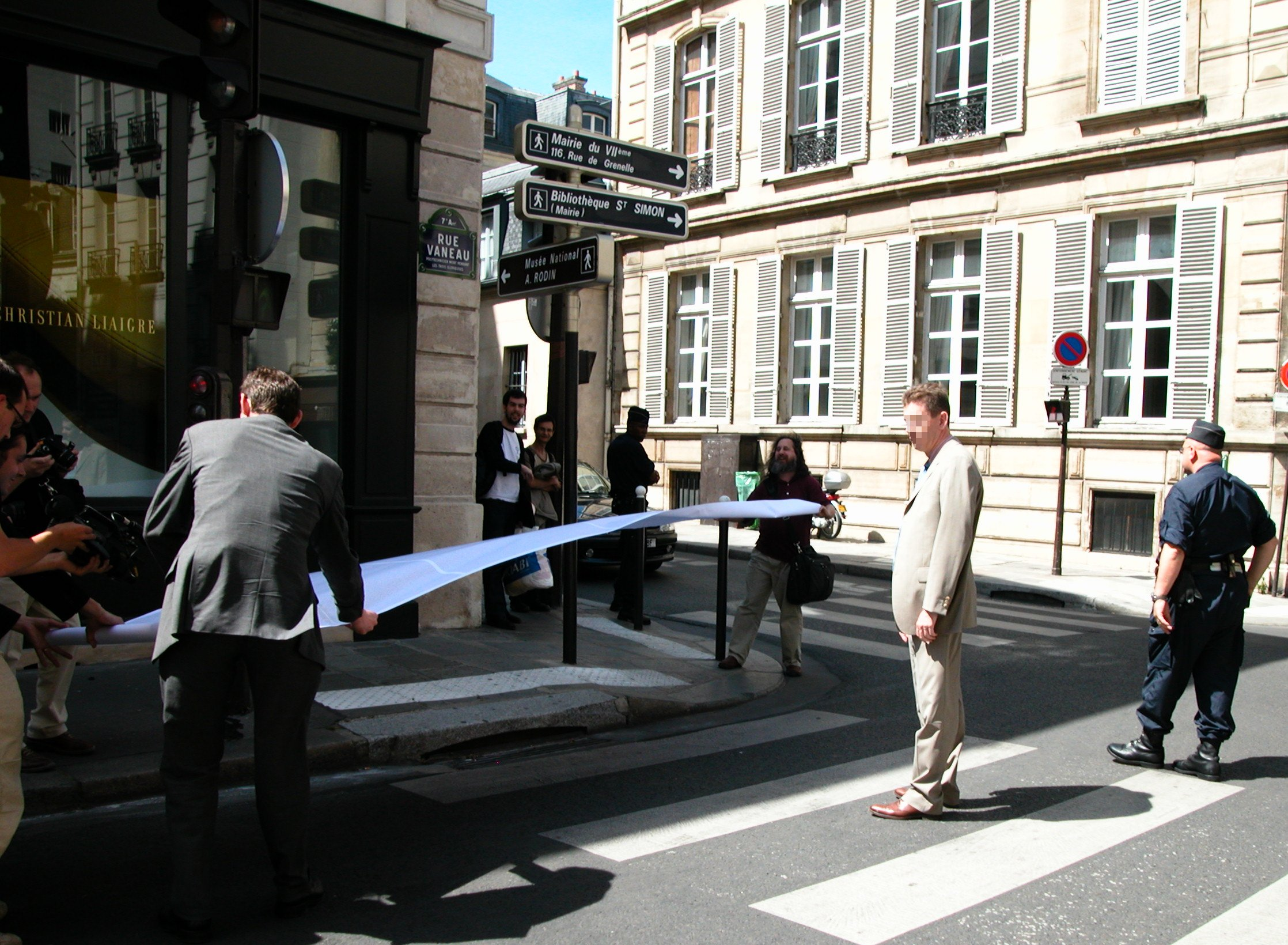 June 9, 2006: Richard M. Stallman and others unrolling the list of signatories of the petition against DRMs and the DADVSI law near the offices of French Prime Minister Dominique de Villepin.